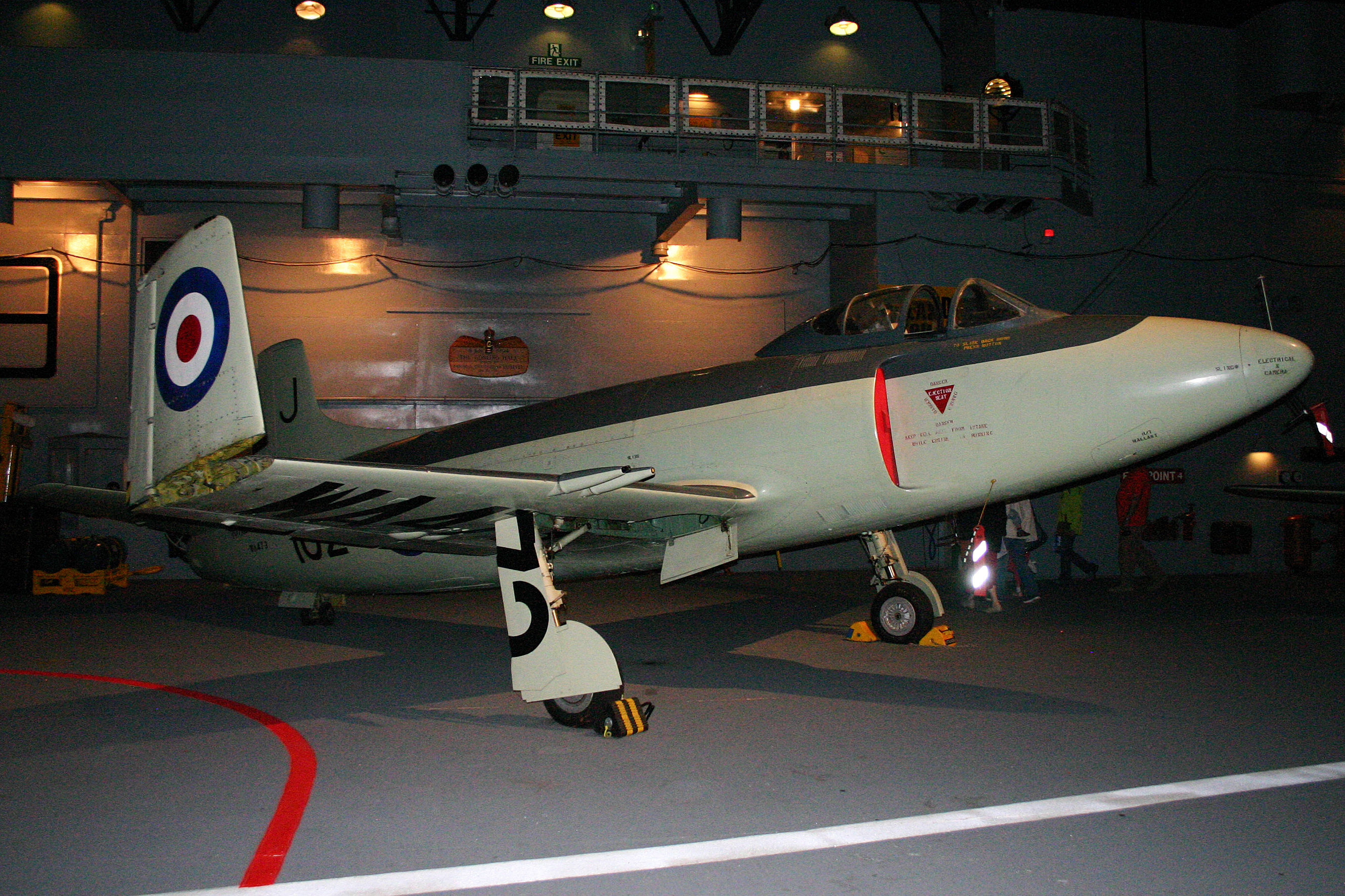 In 800sqn markings. Sole surviving example. Displayed in 'Carrier' exhibition. FAA Museum Yeovilton. 15-6-2011